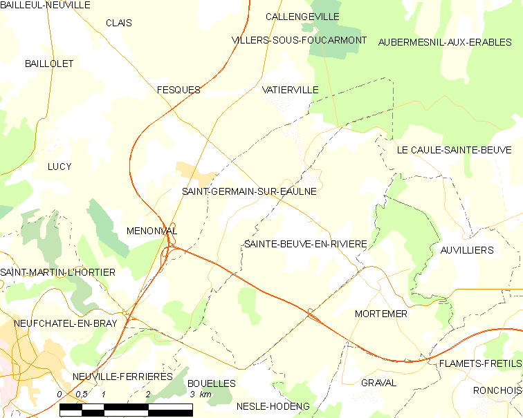 Map of French municipality Saint-Germain-sur-Eaulne